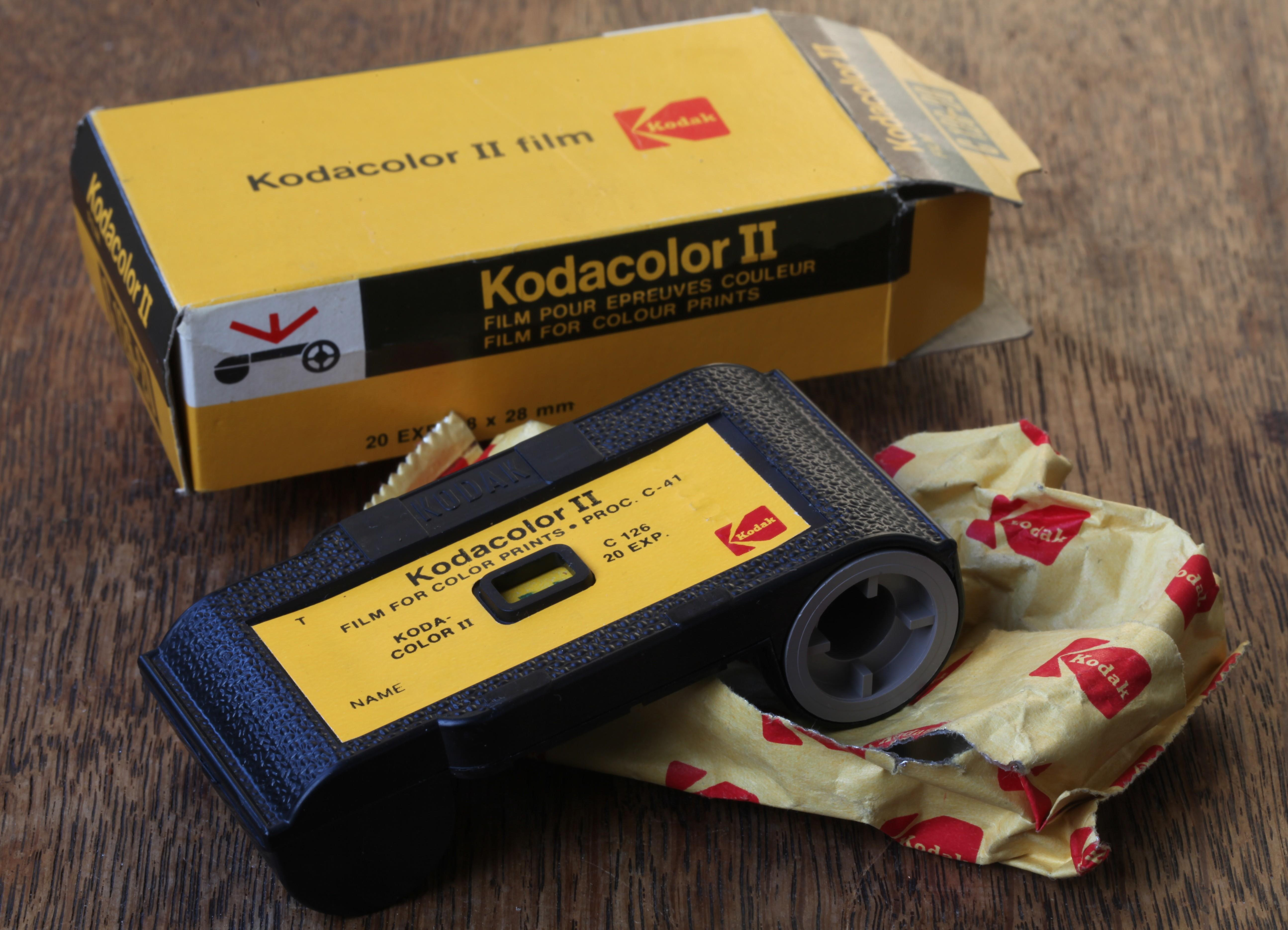 Kodacolor II film C 126-20 100 ASA /21 DIN 126 film 126 film cartridge expiring date 1980